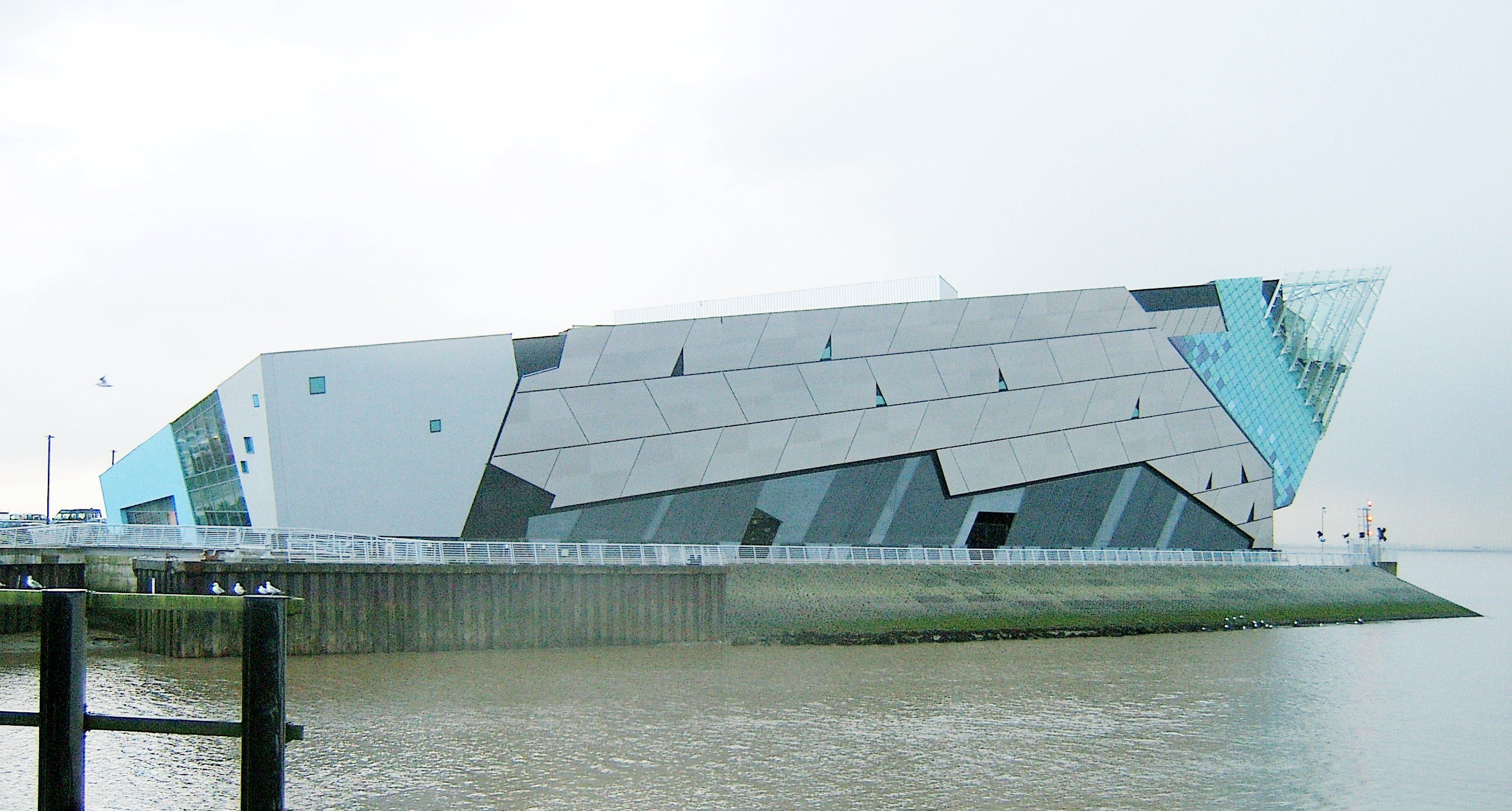 Photo of The Deep, Hull taken November 26, 2005. Processed in order to improve the quality of the image.